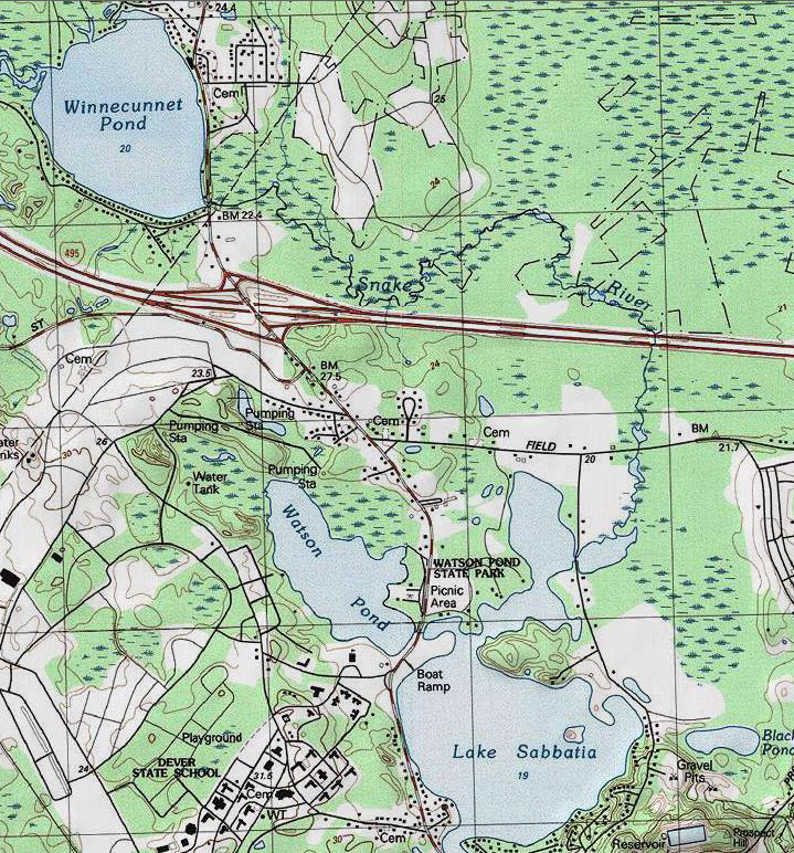 Topographic map of Snake River, Watson Pond, Canoe River watershed, Massachusetts